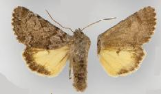 Lasionycta secedens bohemani male